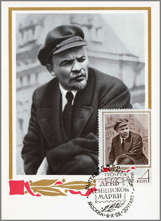 USSR 1968. Maximum card with a stamp dedicated to Lenin. To photo and stamp: Lenin of the Vsevobuch parade at the Red Square, May 25, 1919. Photo by A.I. Saveliev. Special cancellations 06/10/1968 Moscow, Central Post Office; "The exhibition of 50 anniversary of the Komsomol. The day of Leninist stamp."